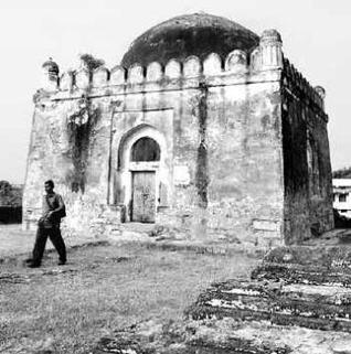 The tomb of Alauddin Hasan Bahman Shah